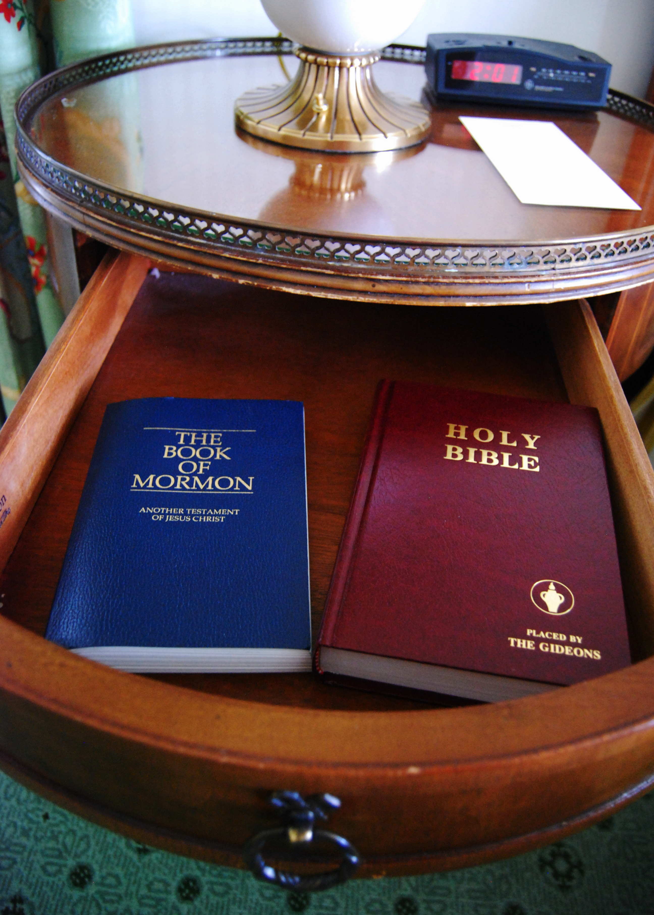 A Gideon Bible and the Book of Mormon in a hotel room. This was originally posted under the title "Depth of information".